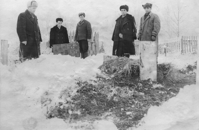 The funeral. Deported Crimean Tatars. Krasnovishersk, Molotov Region, RSFSR, 1944.